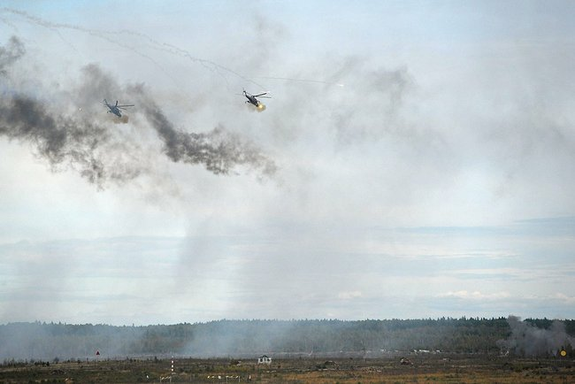 The final stage of the Zapad-2013 Russian-Belarusian strategic military exercises.